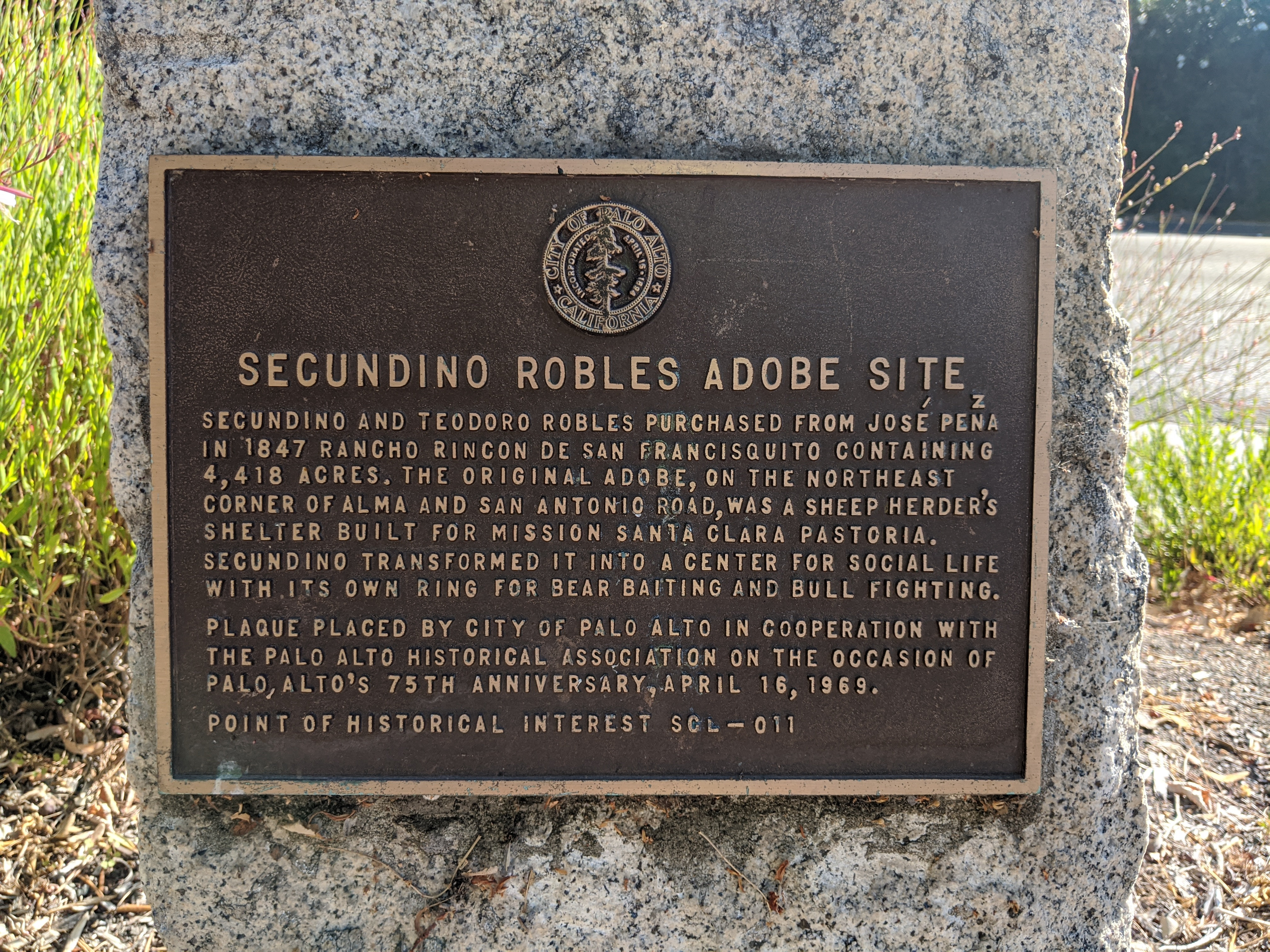 Plaque commemorating the adobe built by Secundino and Teodoro Robles in Palo Alto. The plaque reads: Secundino Robles Adobe Site Secundino and Teodoro Robles purchased from José Peña in 1847 Rancho Rincon de San Francisquito containing 4,418 acres. The original adobe, on the northeast corner of Alma and San Antonio Road, was a sheep herder's shelter built for Mission Santa Clara Pastoria. Secundino transformed it into a center for social life with its own ring for bear baiting and bull fighting. Plaque placed by City of Palo Alto in cooperation with the Palo Alto Historical Association on the occasion of Palo Alto's 75th anniversary, April 16, 1969. Point of Historical Interest SCL-011